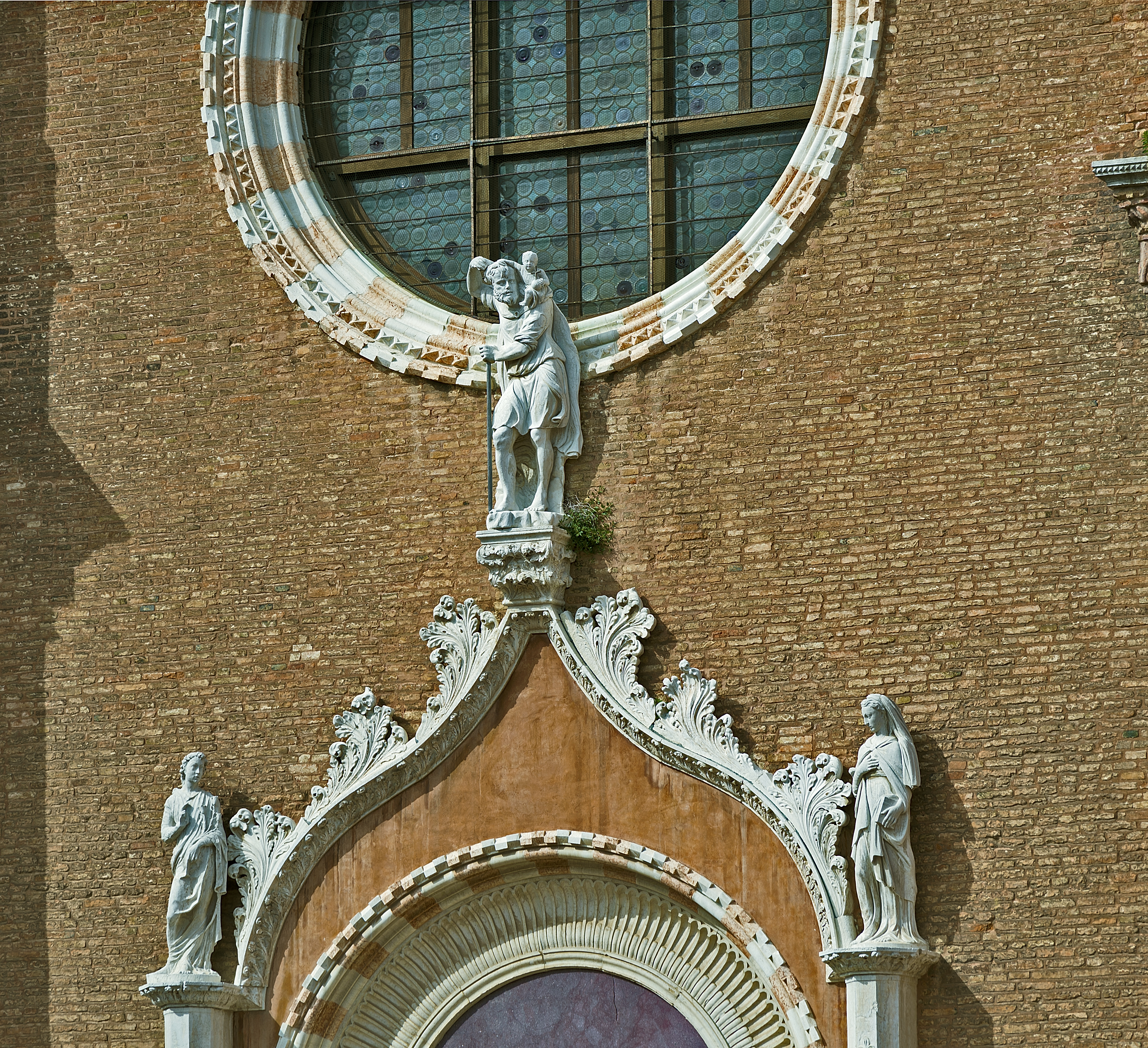 Madonna dell'Orto, Venice. Upper part of the portal. At the top: St. Christopher by Nicolò di Giovanni Fiorentino, right Archangel Gabriel by Nicolò di Giovanni Fiorentino, left Virgin Mary by Antonio Rizzo.